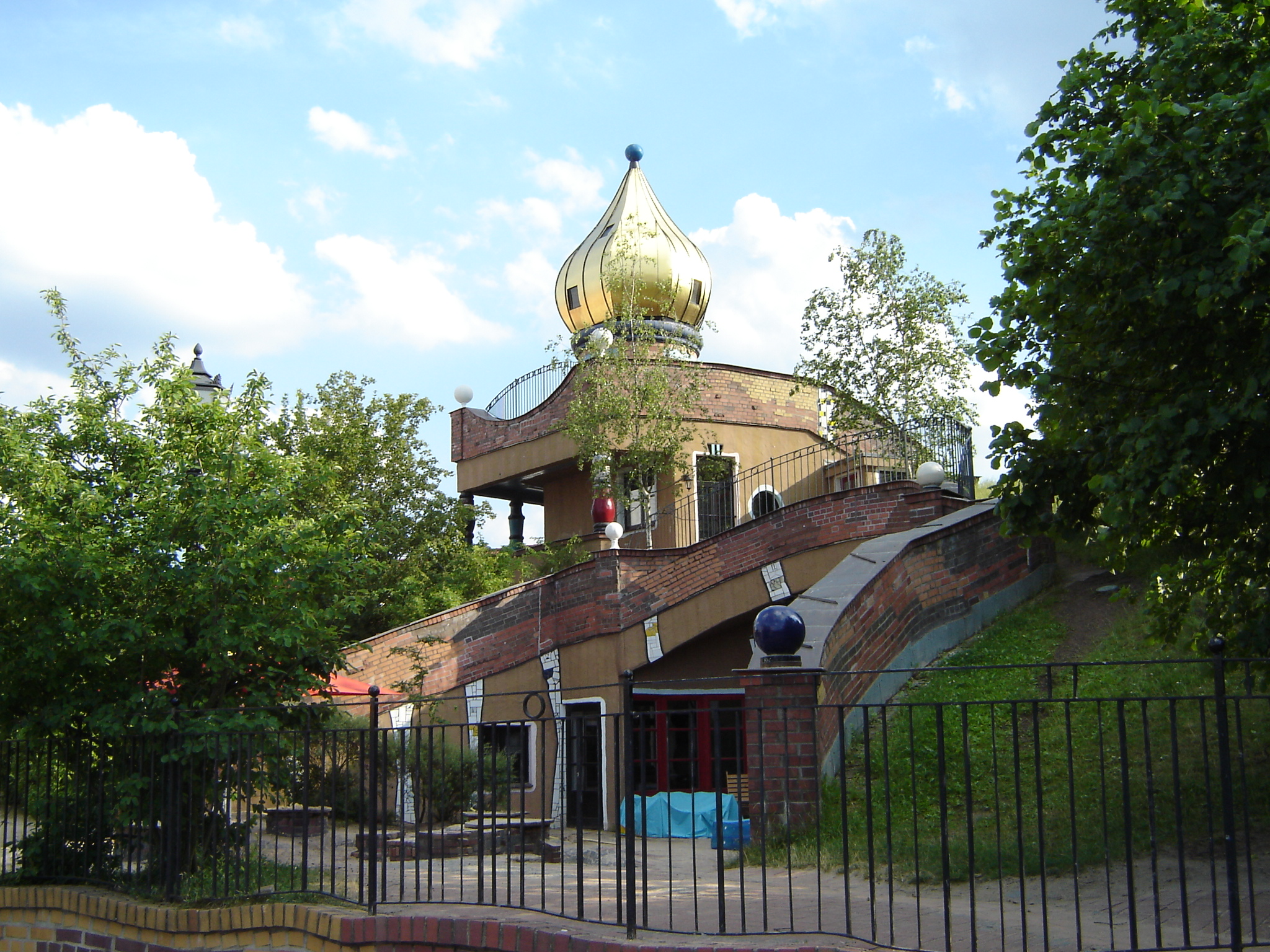 Kindergarten in Frankfurt am Main-Heddernheim, projected by Friedensreich Hundertwasser the photo was taken by Gerbil's daughter in July 2006